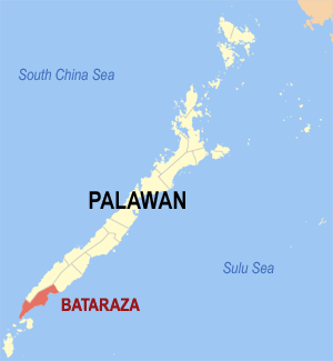 Map of Palawan showing the location of Bataraza